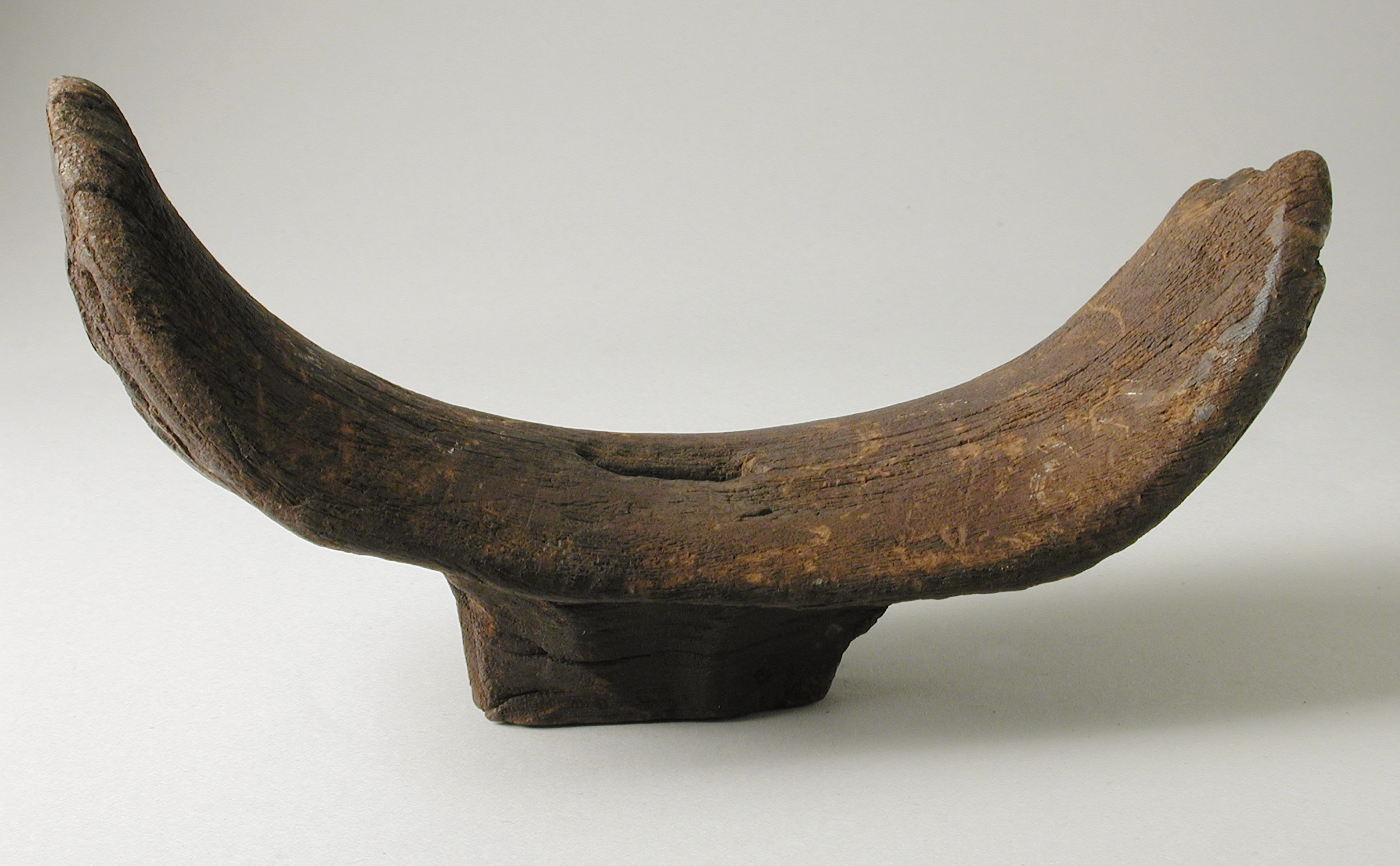 Egypt, 2687 - 31 BCE Furnishings; Furniture Wood Gift of Jerome F. Snyder (M.80.202.7) Egyptian Art